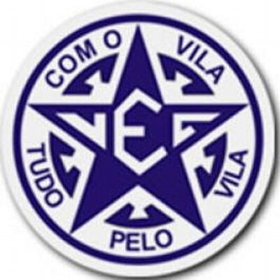 Escudo do Vila Esporte Clube